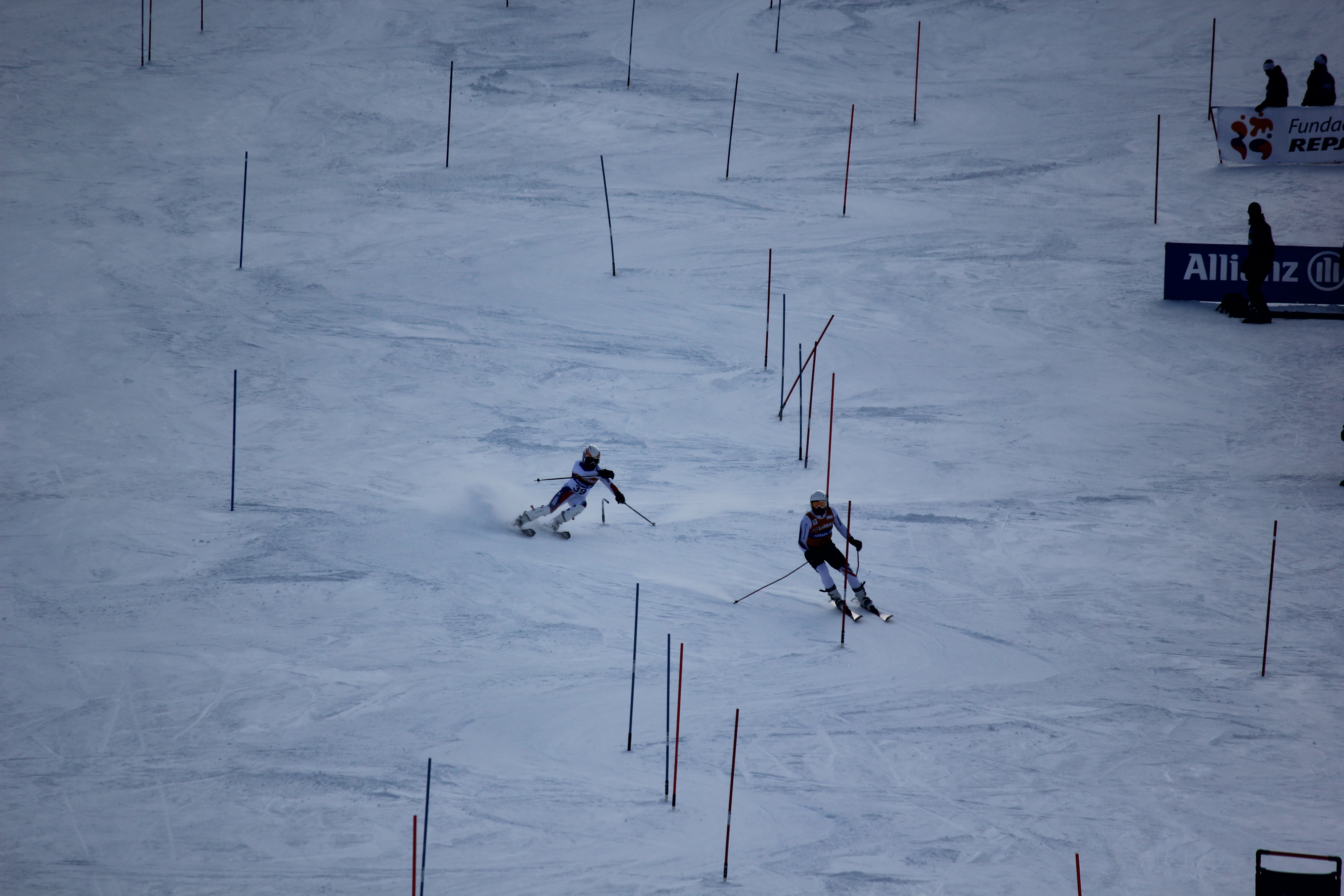 Ivan Frantsev and guide German Agranovskii. 2013 IPC Alpine World Championships at La Molina in Spain. Day 3 of competition. Slalom final.